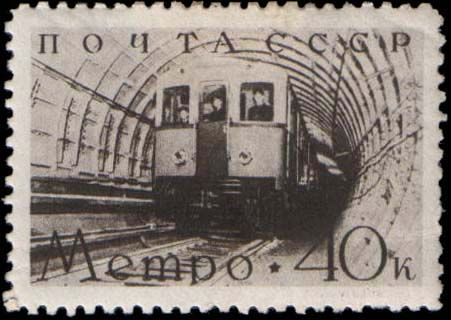 Stamp of the Soviet Union, a metro train in the tunnel (Moscow Metro), 1938, CPA #638.